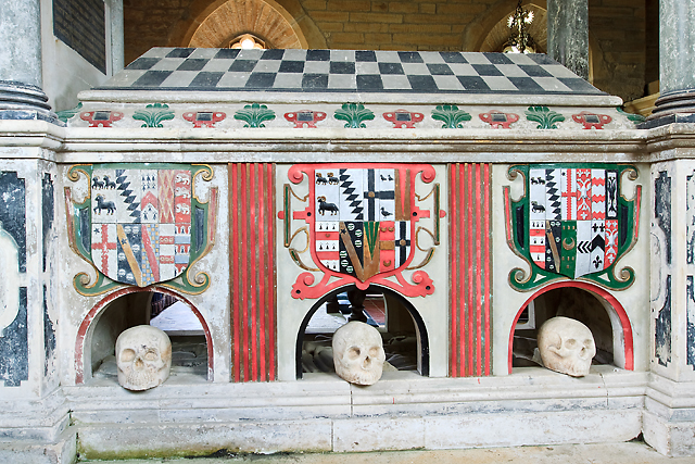 St Andrew's church, Brympton D'Evercy - tomb-chest of John Sydenham (3) detail